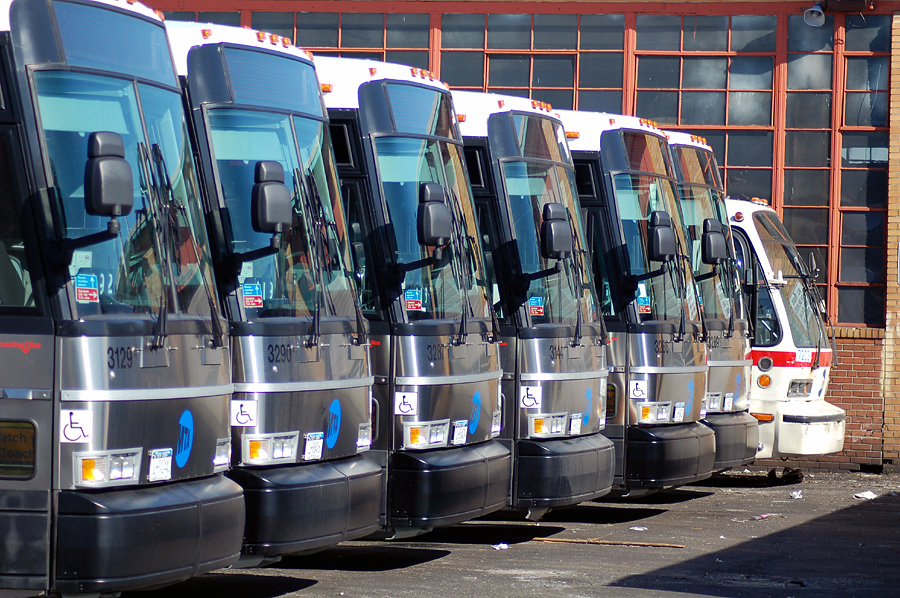 A lineup of brand-new MCI D4500 coaches for MTA Bus Company is seen at the LaGuardia Bus Depot in Queens. An older RTS bus formerly operated by Triboro Coach can be seen at the far end of the line. Photo taken and uploaded by Robert McConnell.